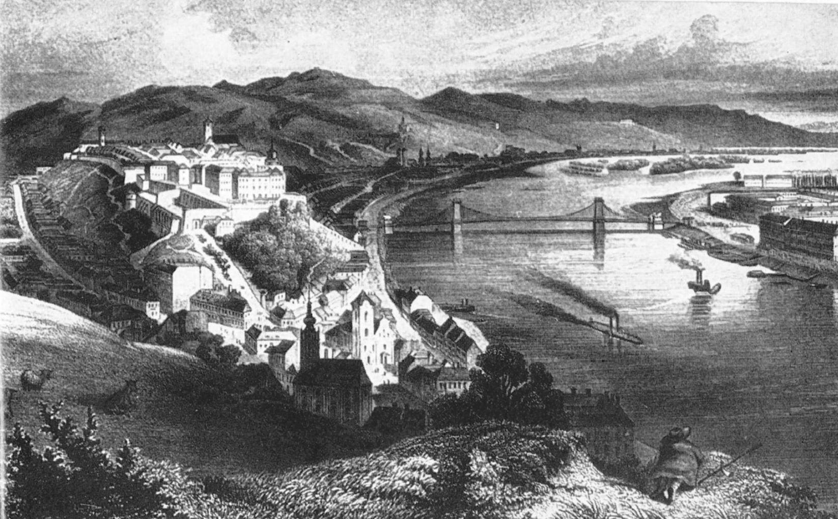 View over Buda Castle, Tabán, Hungary, mid 1800s